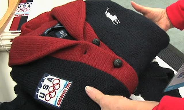 A Polo Ralph Lauren Team USA 2010 Winter Olympics cardigan in Vancouver, Canada.